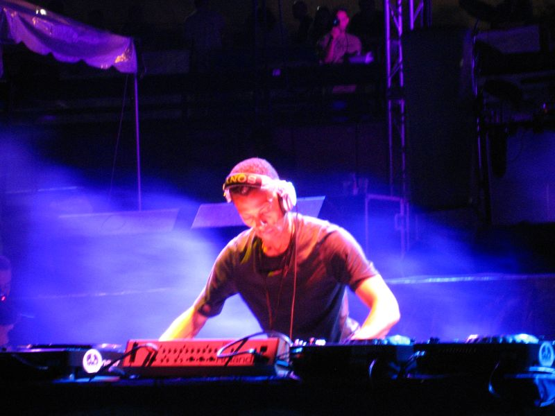 Jeff Mills